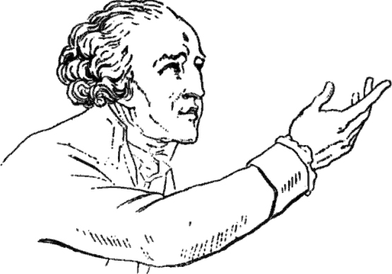 Portrait of Henry Essex Edgeworth (1745-1807), a Catholic priest and confessor of Louis XVI.